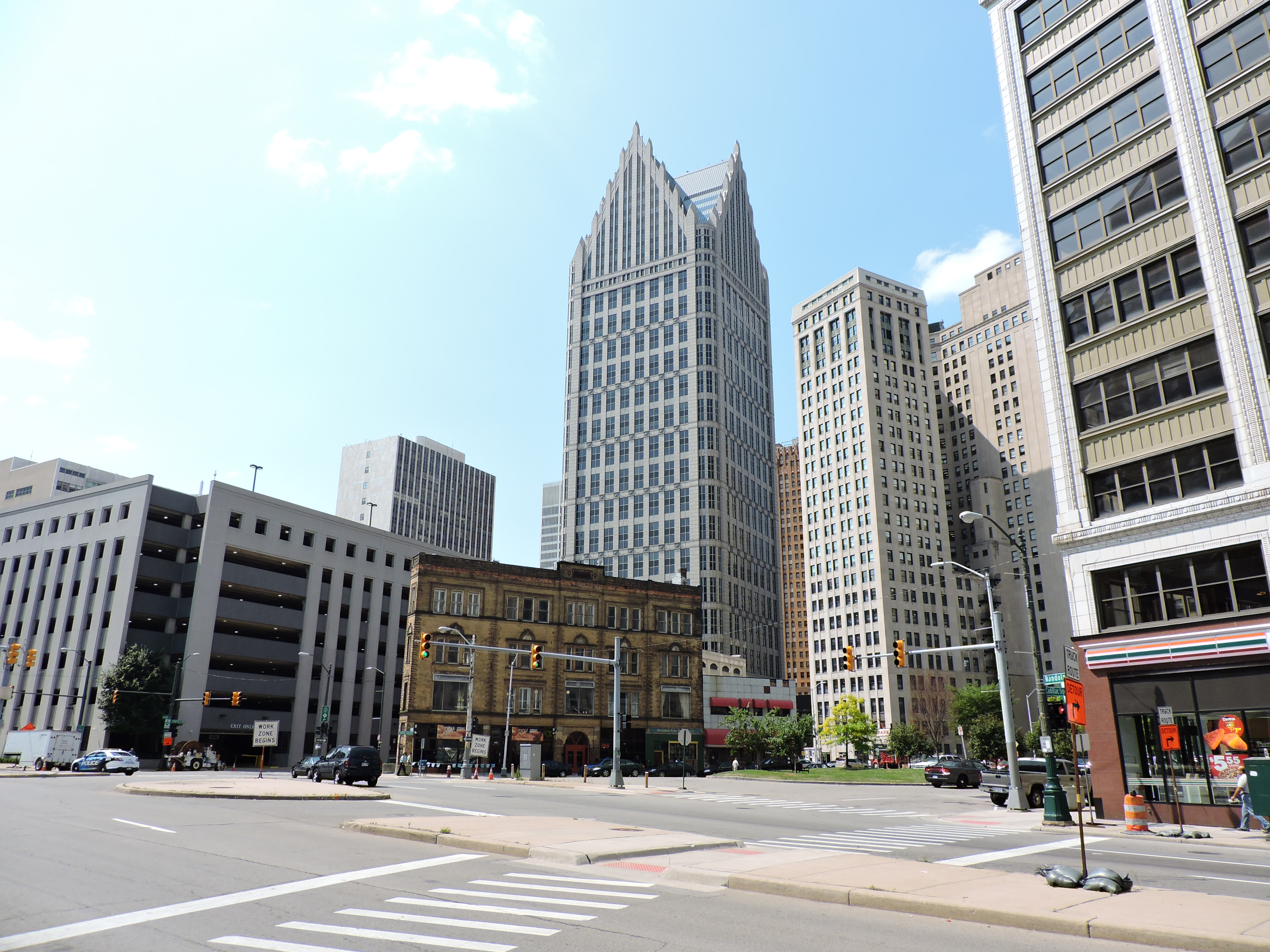 Downtown, Detroit, MI, USA